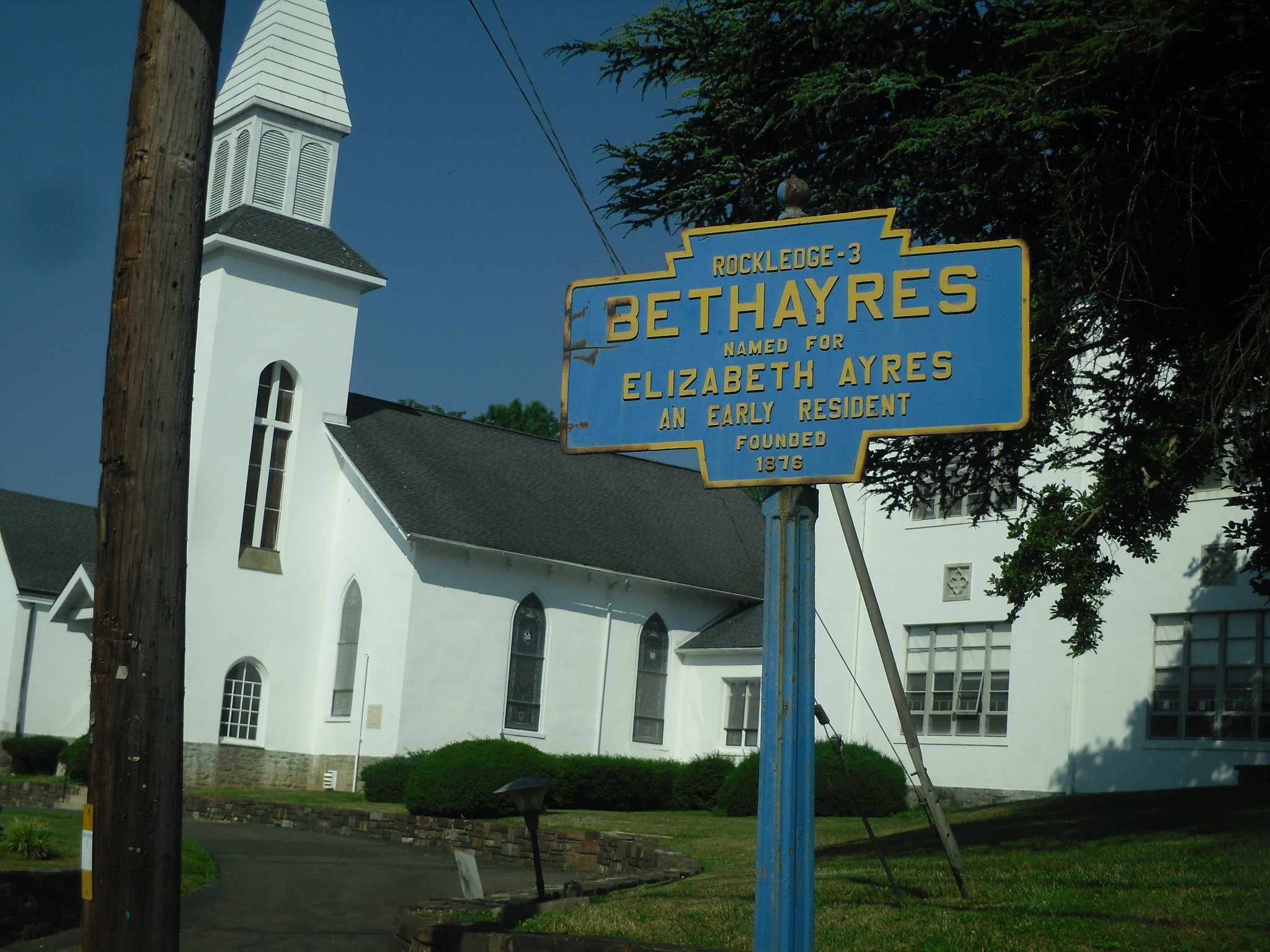 Bethayres is a village in Lower Moreland Township in Montgomery County